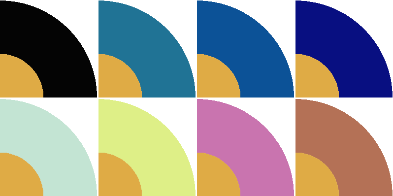 Many of the colours of the single "Sliver" by Nirvana. The colours the single was produced in are aqua/turquoise, black, marbled blue, peach, pink, rose, translucent and yellow.